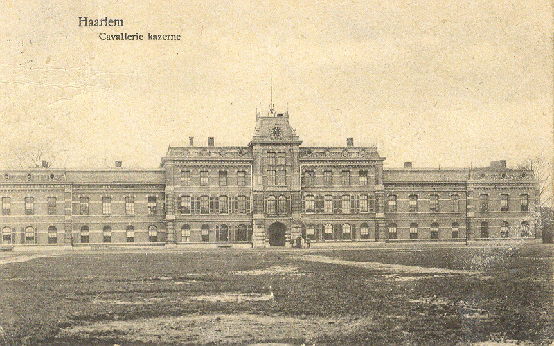 Ripperdakazerne (build between 1882 - 1884), Kleverlaan, Haarlem, The Netherlands